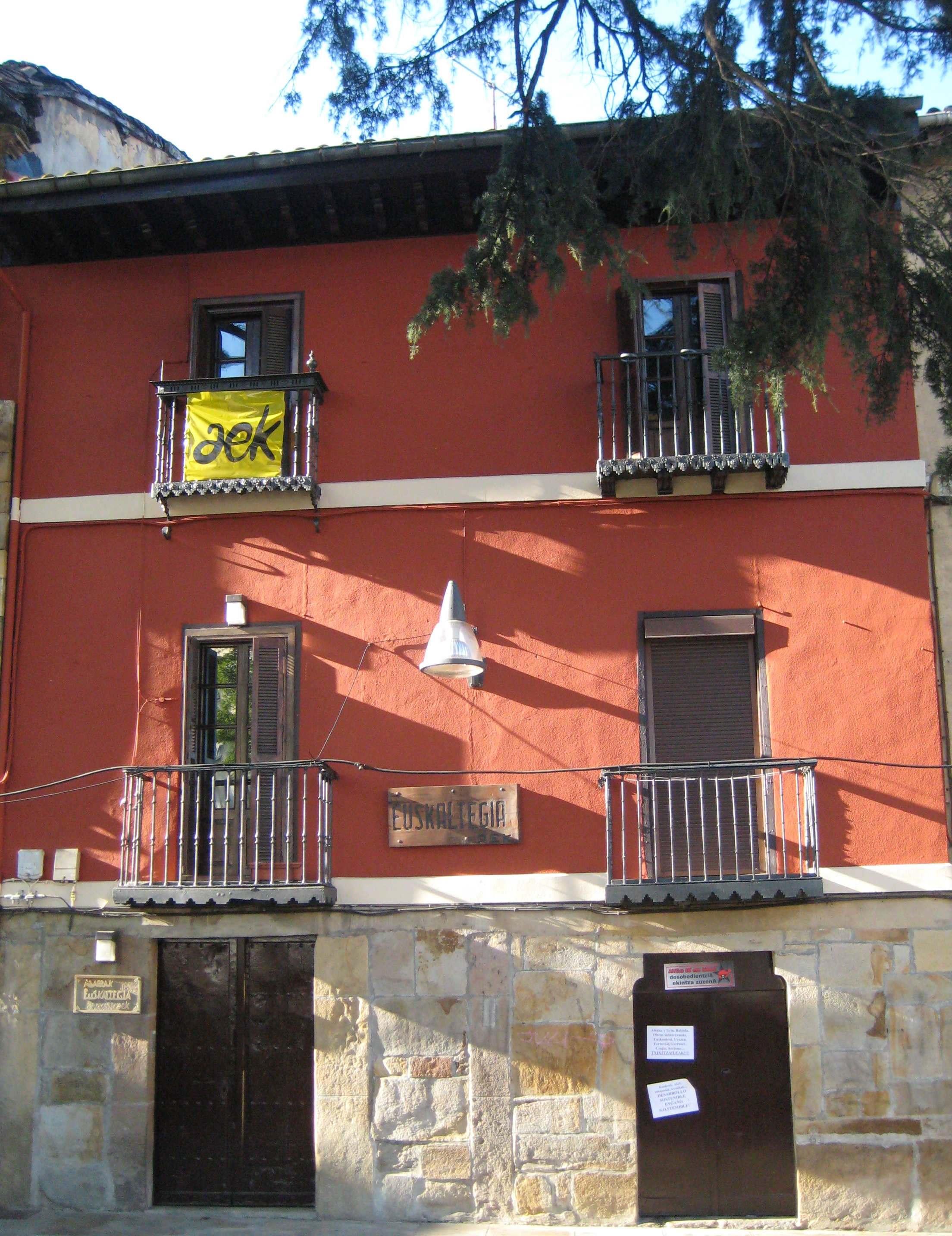 Abarrak euskaltegia (Basque language academy for adults) affiliated to AEK, in Kurutziaga, Durango, Biscay.